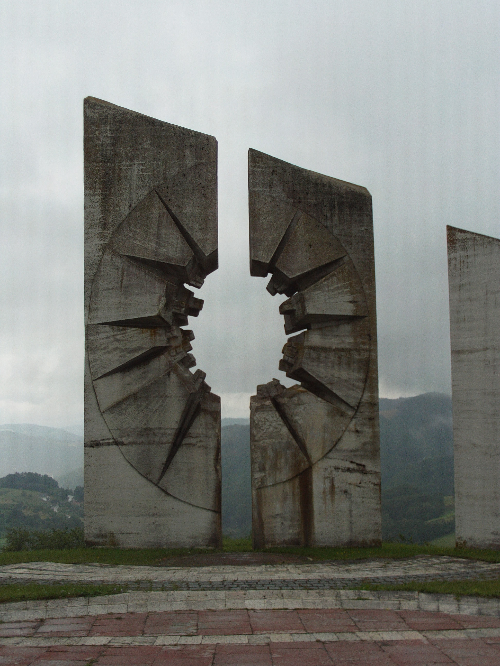 Kadinjača Memorial Complex, Užice, Serbia. Monument near the center